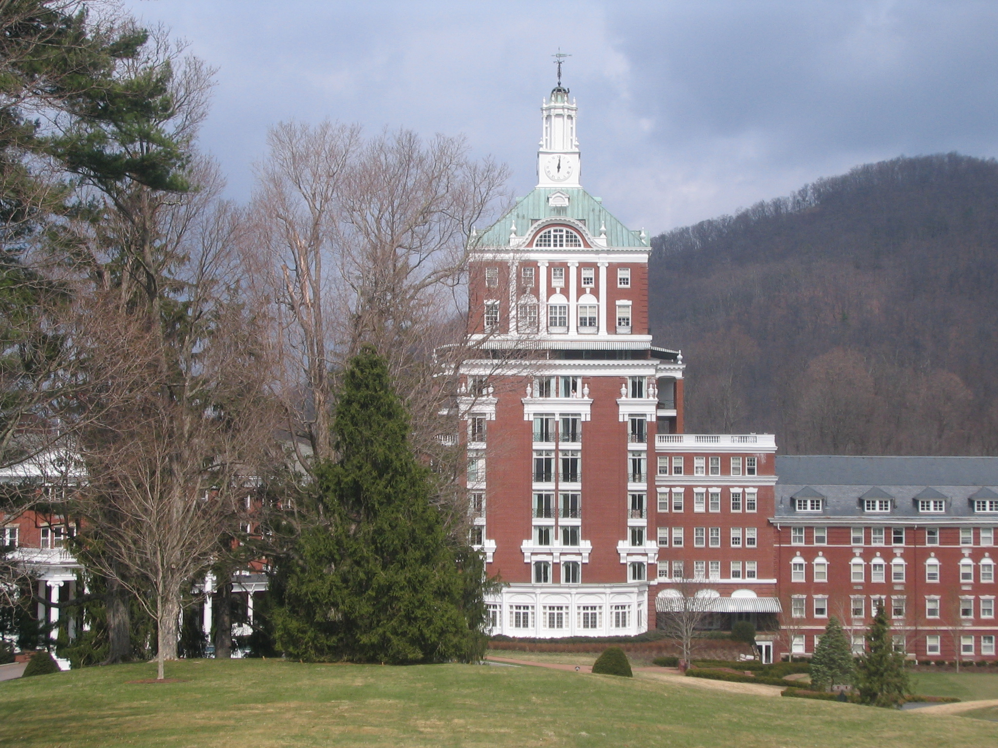 Front side of the Homestead, Hot Springs, Virginia, United States.